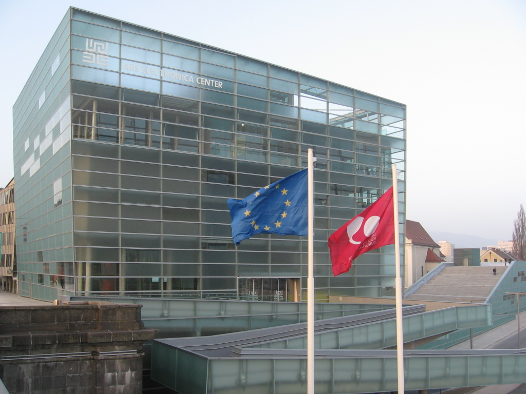 The newly renovated Ars Electronica Center at Linz, seen from the bridge across the Danube